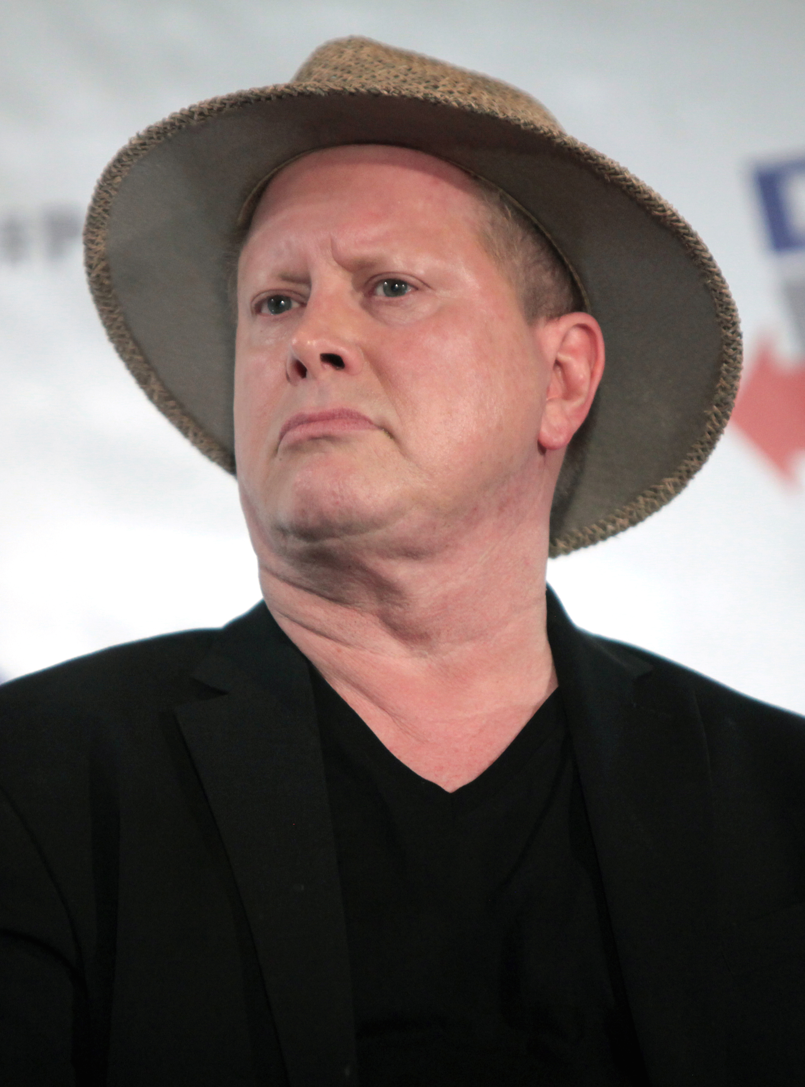 Darrell Hammond speaking at Politicon in Pasadena, California.